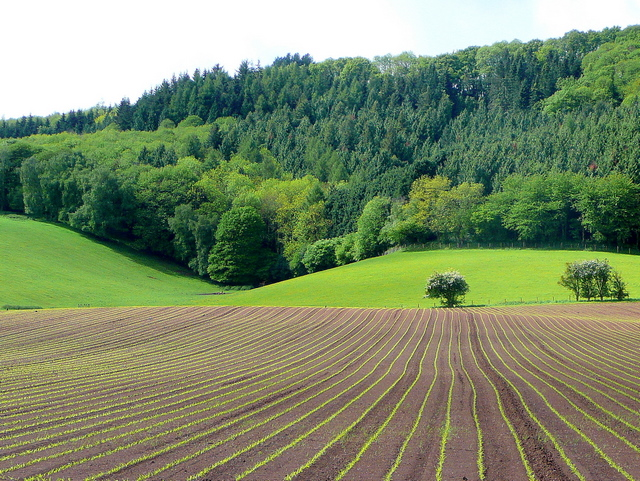 Maize by The Penyard. Looking south-east from the A40 over a recently drilled field of fodder maize below the mixed woodland on the slopes of Penyard Hill. See 1437048 for the same view in August.